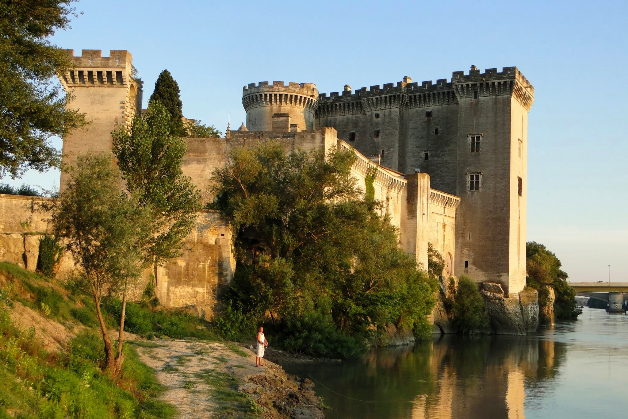 Medieval Сastle on the Rhône